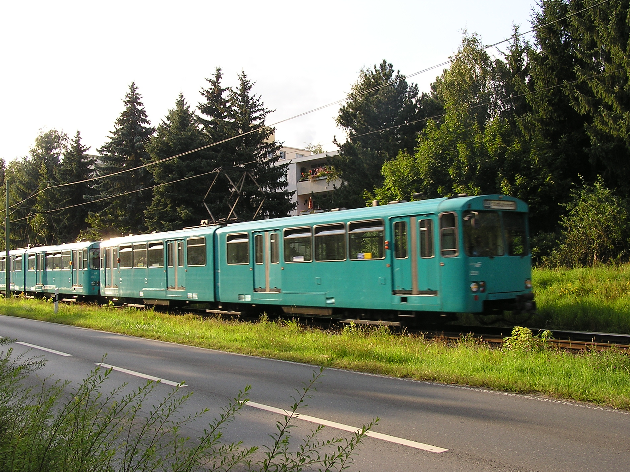 U2-Trains on the line U3 in Oberursel